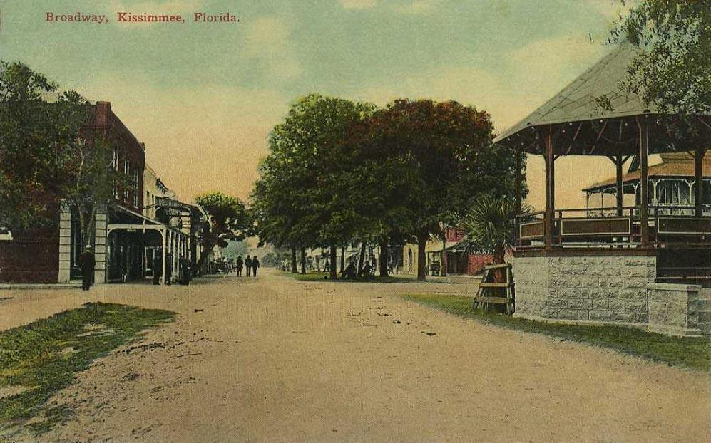 Broadway Avenue, Kissimmee, FL; from a c. 1912 postcard.